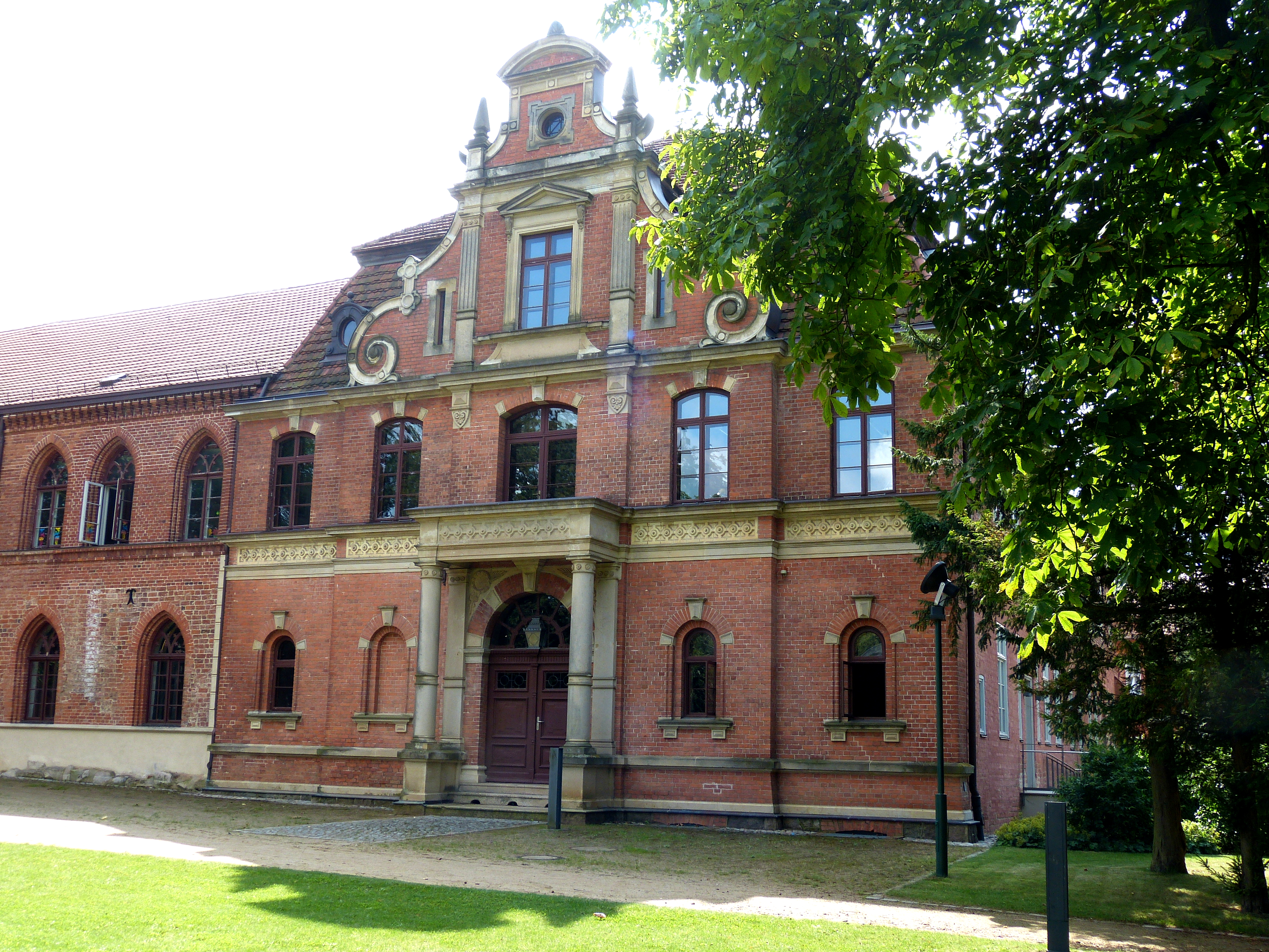 Dobbertin ( Mecklenburg ). Monastery: House of the Domina ( 1886 ) by Daniel Rauch.